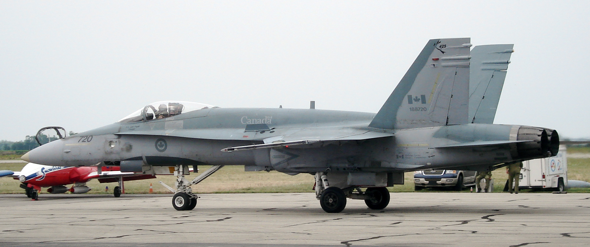 CF-18 of the Canadian Forces. This example was photographed at an airshow held at St. Catharines Airport. Photo taken on August 26, 2006. Source: Photo by me, User:Balcer.